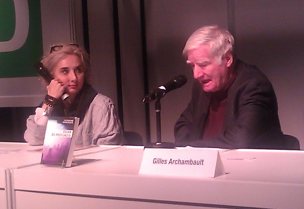 Catherine Mavrikakis & Gilles Archambault photographed in Montreal, Quebec, Canada at the Salon du livre de Montréal 2016.